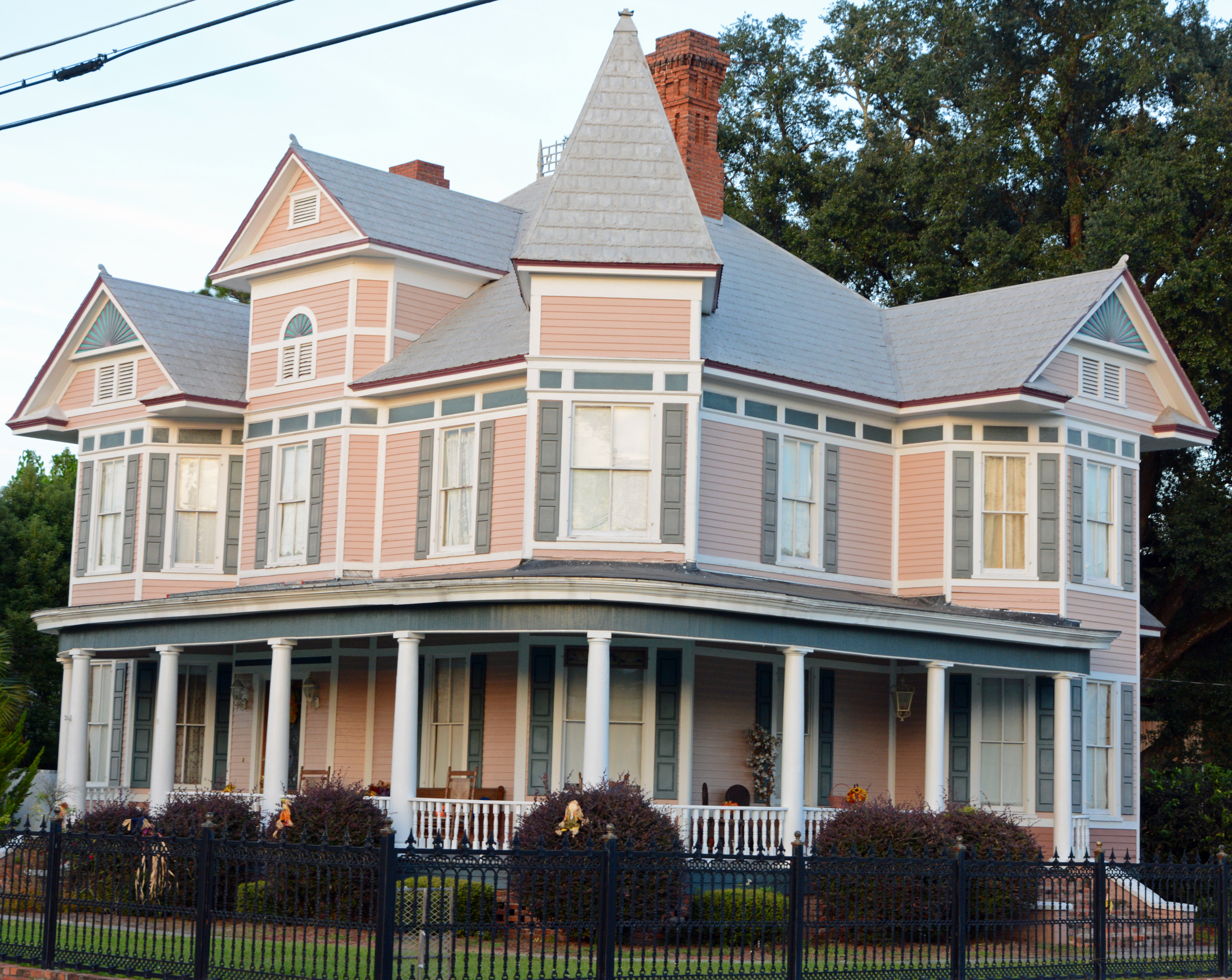 Summerland-Tilman home, 1986, Gilmore and Howe, Waycross, Georgia, US